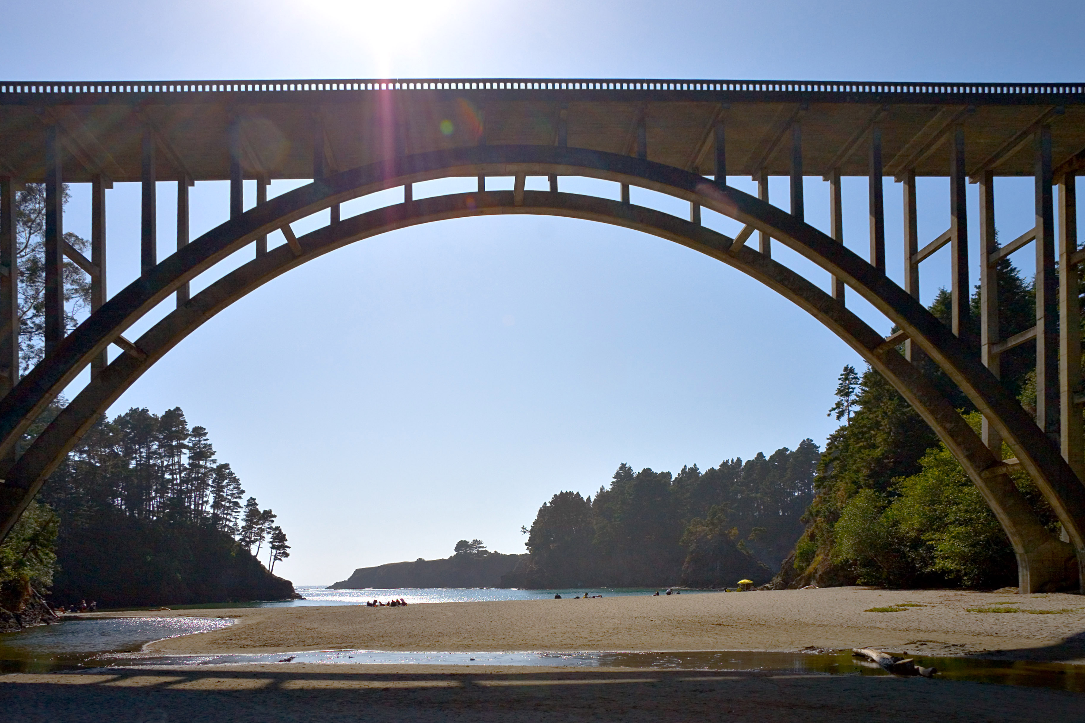 Russian Gulch State Park and the Frederick W. Panhorst Bridge. Perspective distortion from the wide lens angle (as well as the lens's barrel distortion and chromatic aberration) have been removed or reduced in post-processing.